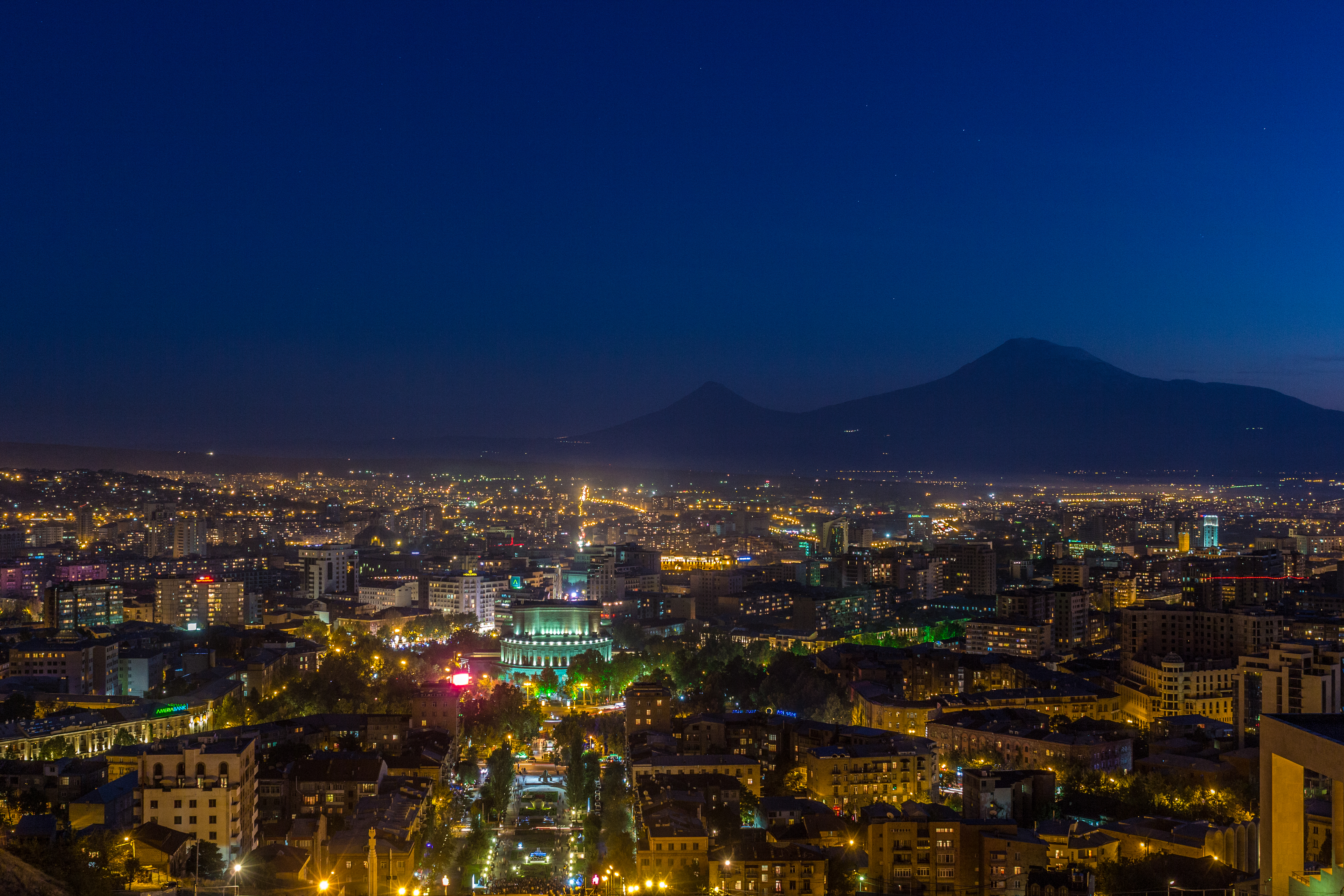 Nighttime view of Yerevan, Armenia, from atop the Cascade.